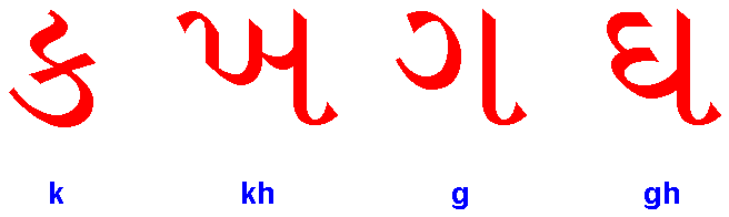 Consonants of Gujarati script